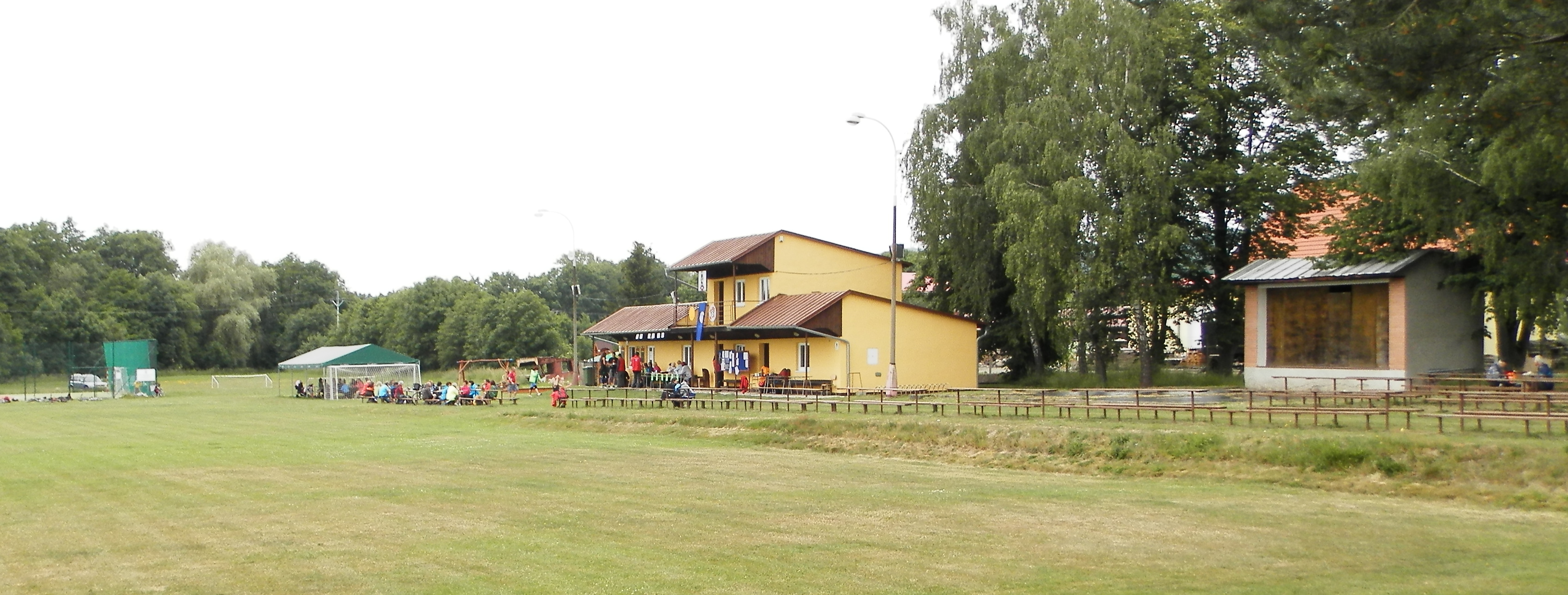 The starting point of hiking tour Memoriál Jaroslava Švarce.